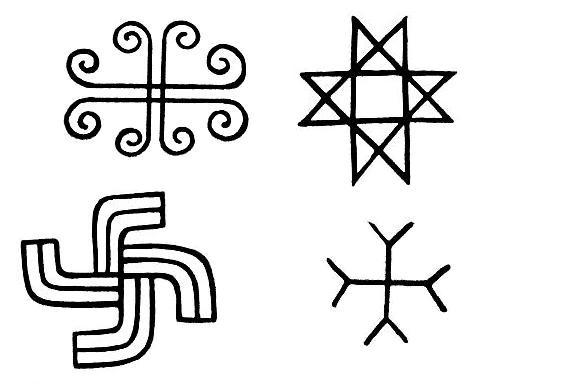 Avarian old swastika and avarian maltese-type crosses